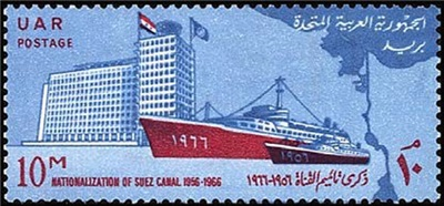 Nationalisation of Suez canal memory 1966